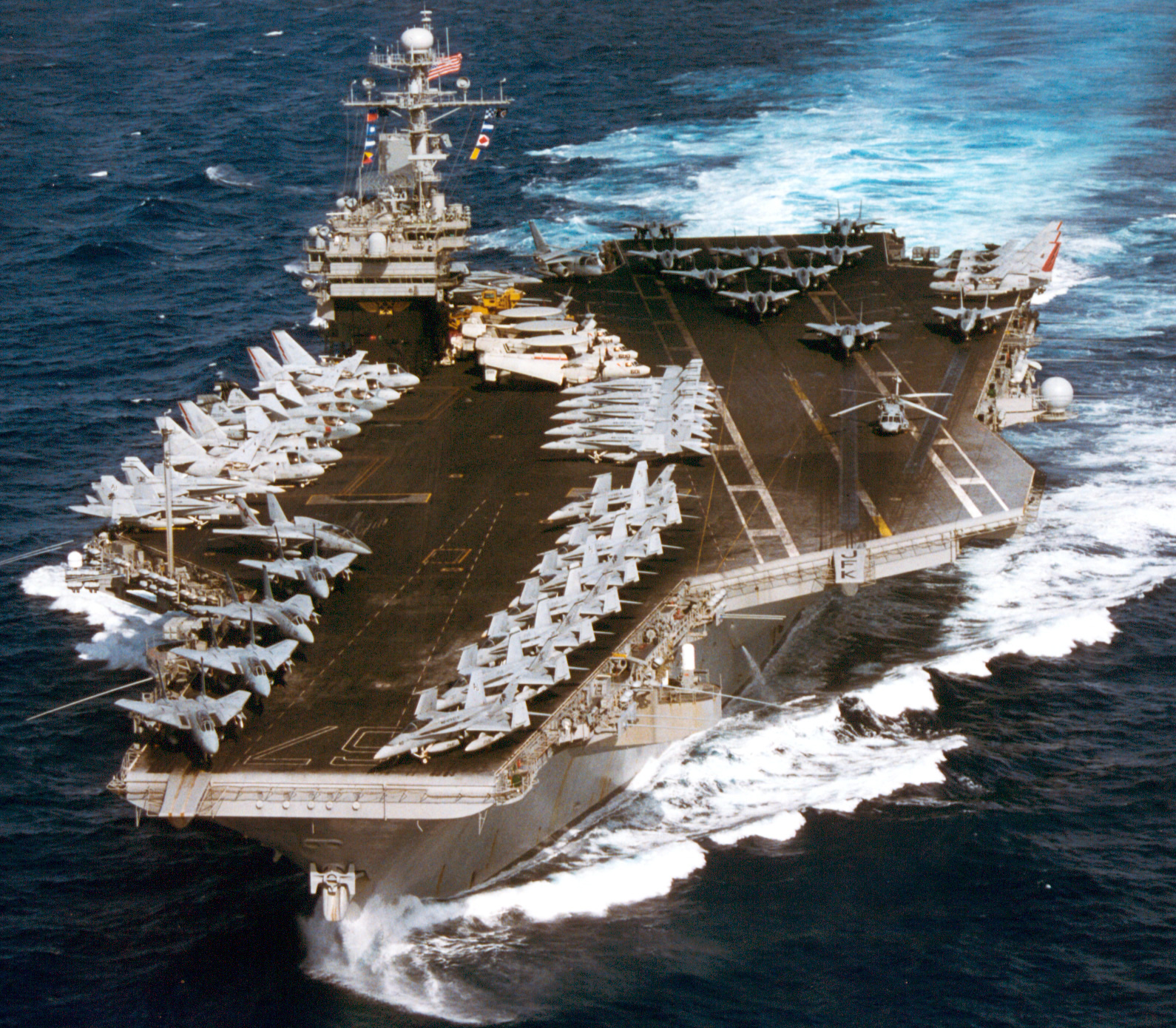 961210-N-0710M-001 (DECEMBER 10, 1996)--The U.S. Navy’s aircraft carrier USS JOHN F. KENNEDY (CV 67) steams in the Northern Puerto Rican Operations Area (NPOA) during carrier airwing qualifications. U.S. Navy photo by Photographers Mate Second Class Scott A. Moak. (RELEASED)